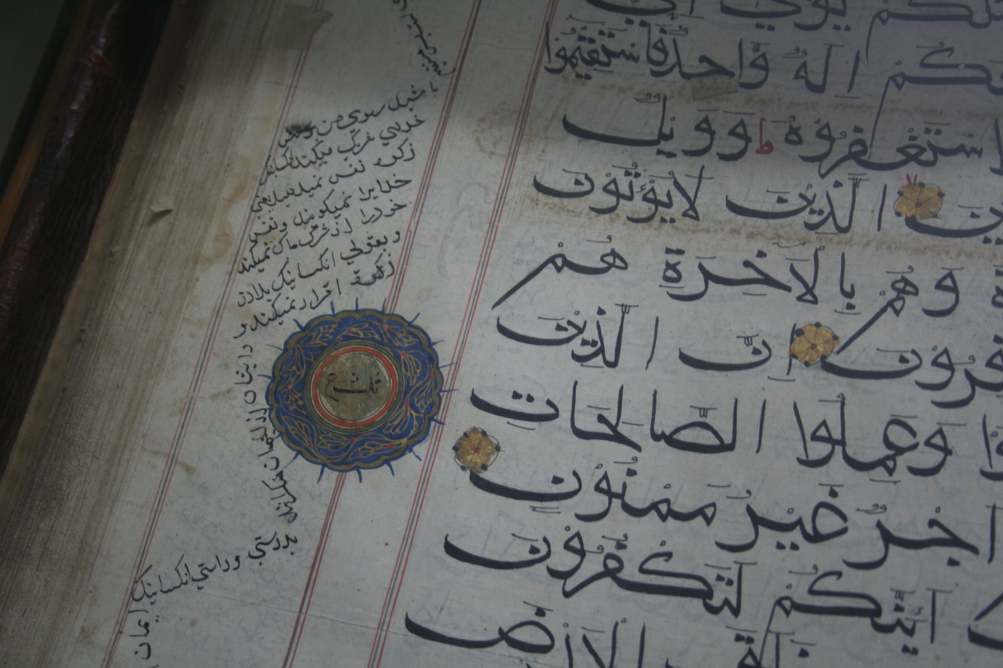 Arabic caligraphy (from Holy Quran) in Salarjung Museum, Hyderabad, India